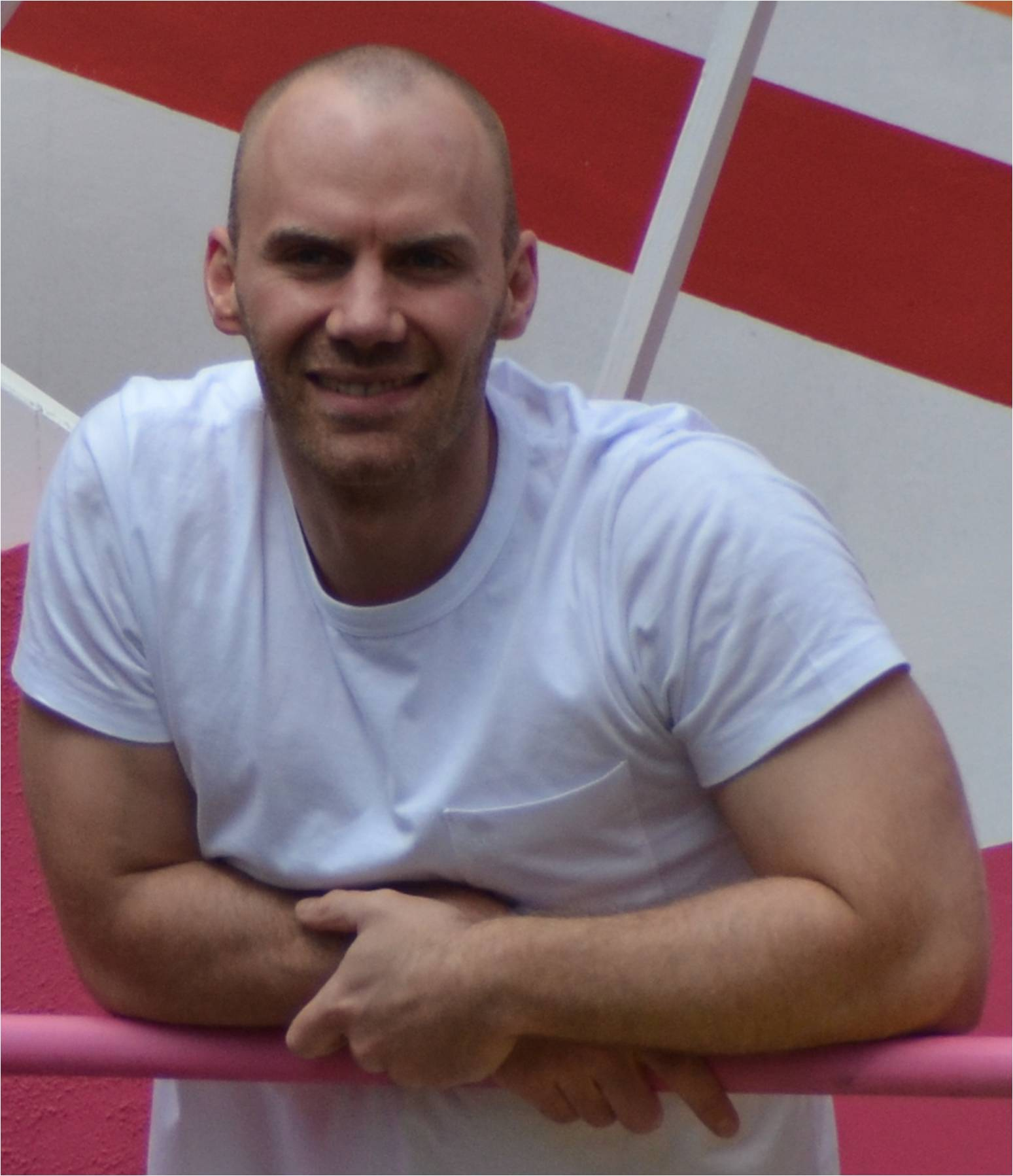 Will Thorp at Manchester Pride 2011 on the Coronation Street float